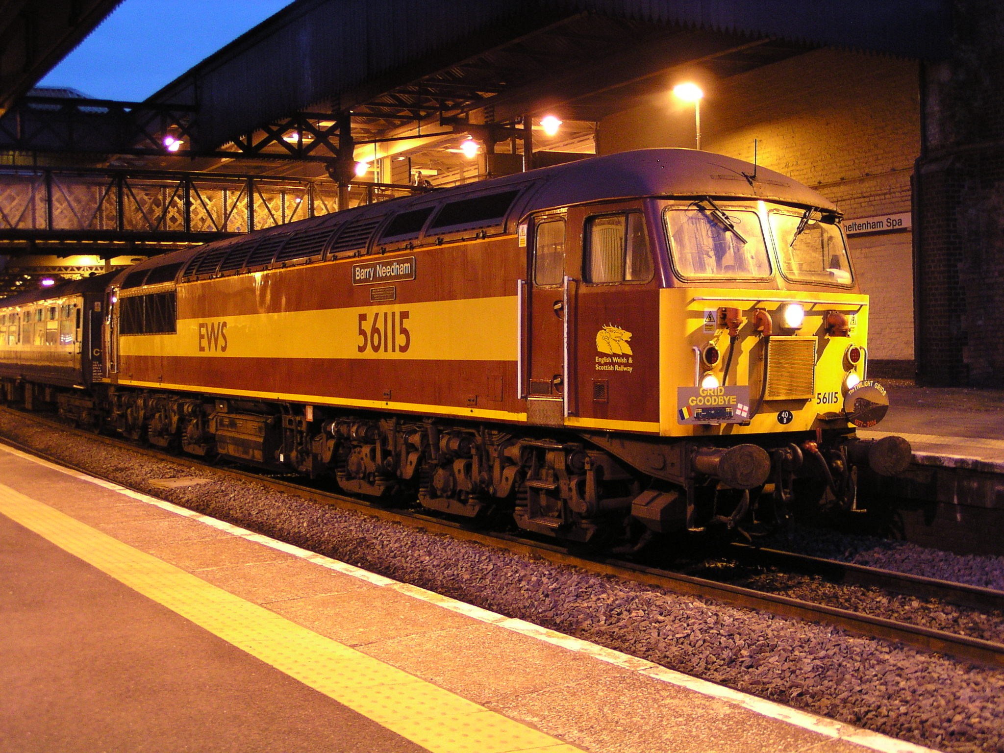 British Rail Class 56, no. 56115 "Barry Needham" at Cheltenham Spa on 31st March 2004. This was its final day in traffic before withdrawal, and is seen hauling the farewell railtour from Bristol to York. Image by Phil Scott (Our Phellap)